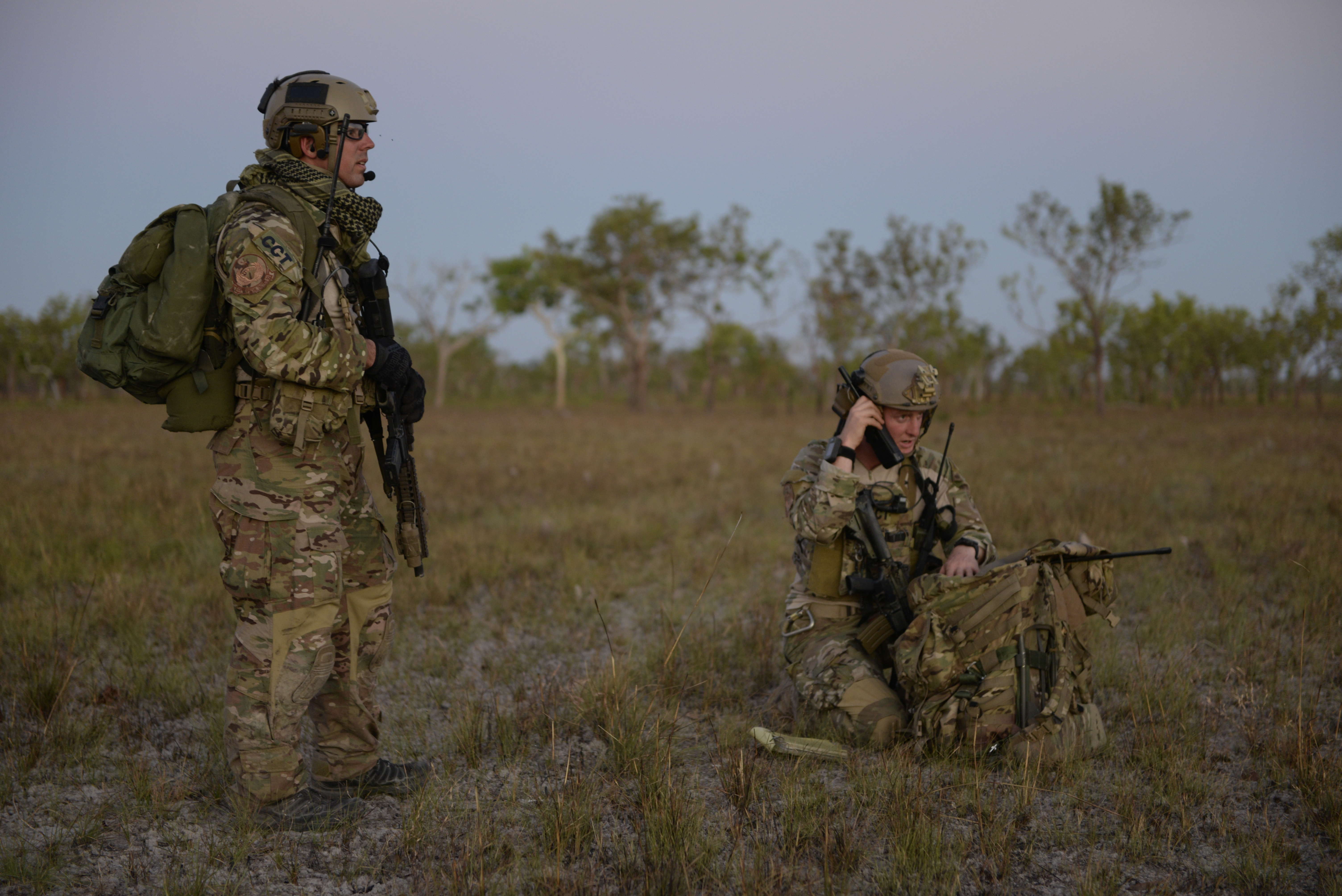 A special tactics combat controller and special tactics officer from the 320th Special Tactics Squadron get ready for a personnel recovery mission after performing a high altitude low opening jump during exercise Talisman Sabre in Northern Territory, Australia, July 10, 2015. The personnel recovery team consisted of four combat controllers, one special operations weatherman and one special tactics officer. (U.S. Air Force photo by Senior Airman Stephen G. Eigel)